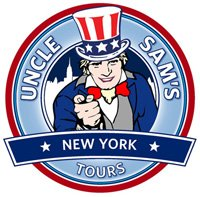 Pub Crawl